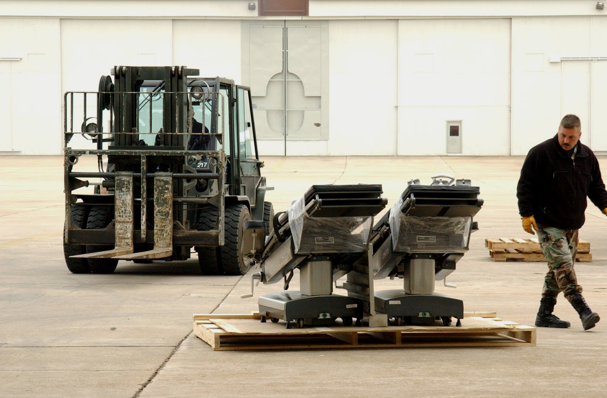 A pair of operating tables at the closed Air Force base here are ready for crating and shipping. Airmen from New York's Stratton Air National Guard Base helped prepare equipment taken from the closed base hospital for transport by sea to Nicaragua. (U.S. Air Force photo by Staff Sgt. Mike R. Smith)